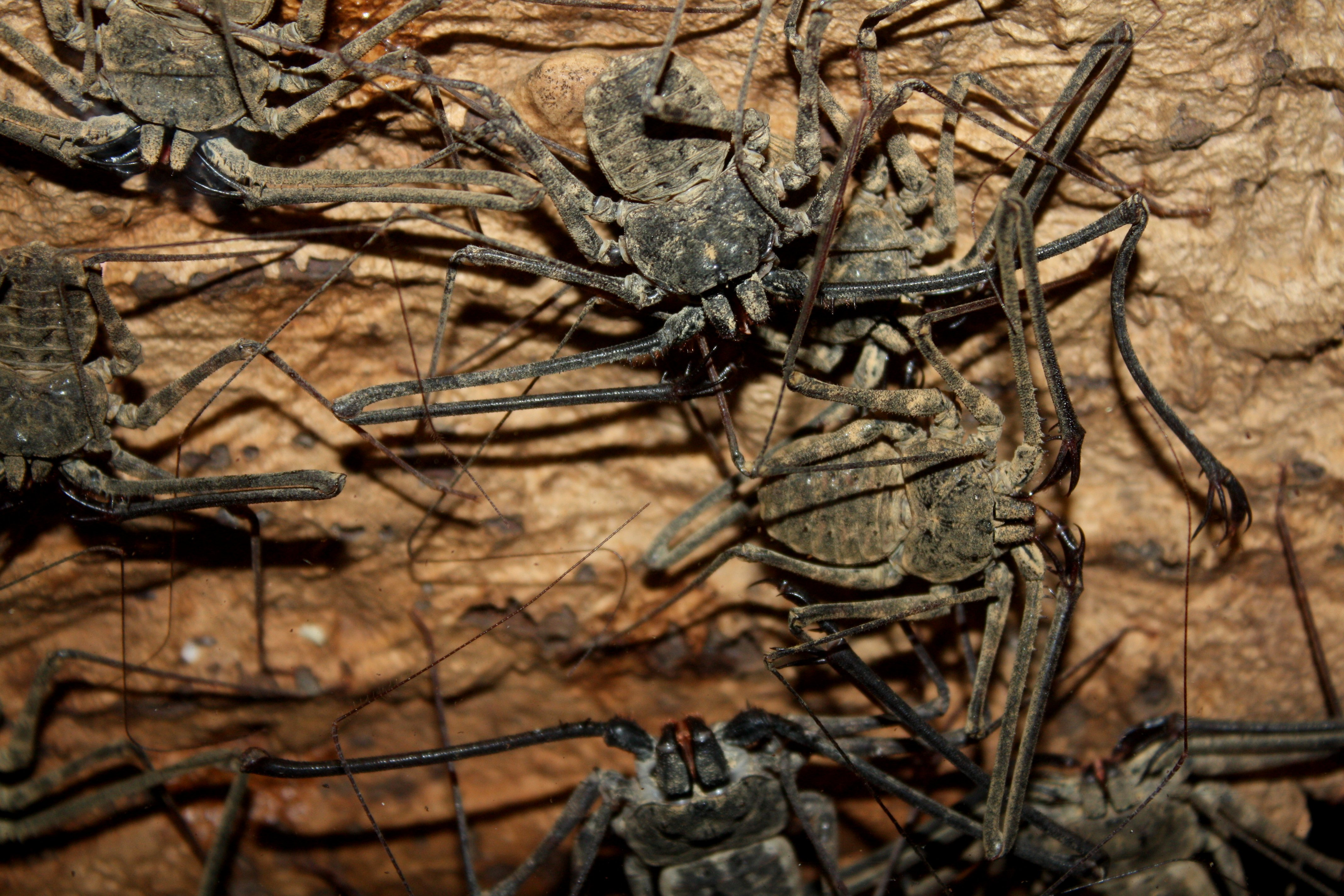 Cave Whip Spider "Damon variegates" at the Cincinnati Zoo